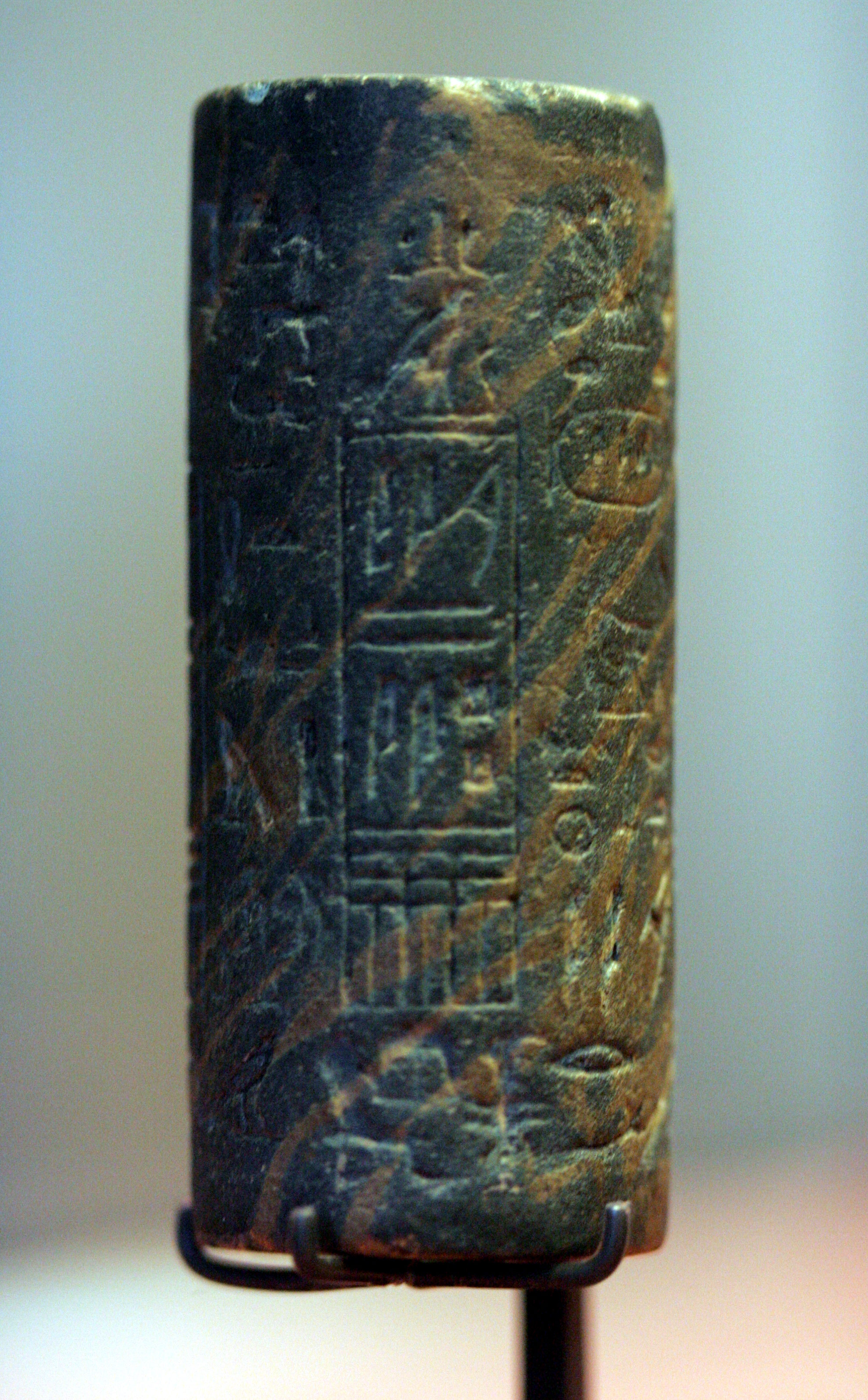 ArtistUnknownDescription Cylindre-seal of Pepi I Meryre, circa 2300 BCE Dimensions7.80cm heigh, 3.20cm in diametreCurrent location (Inventory)Louvre Museum Native nameMusée du LouvreLocationParisCoordinates48° 51′ 37″ N, 2° 20′ 15″ E Established1793Website control : Q19675 VIAF: 257711507 ISNI: 0000 0001 2260 177X ULAN: 500125189 LCCN: n80020283 NLA: 35912436 WorldCat Sully, ground floor, L'écriture et les scribes, room 6, display case 2Accession numberE13441ReferencesLouvre.frSource/PhotographerRama Cylindre-seal of Pepi I Meryre, circa 2300 BCE